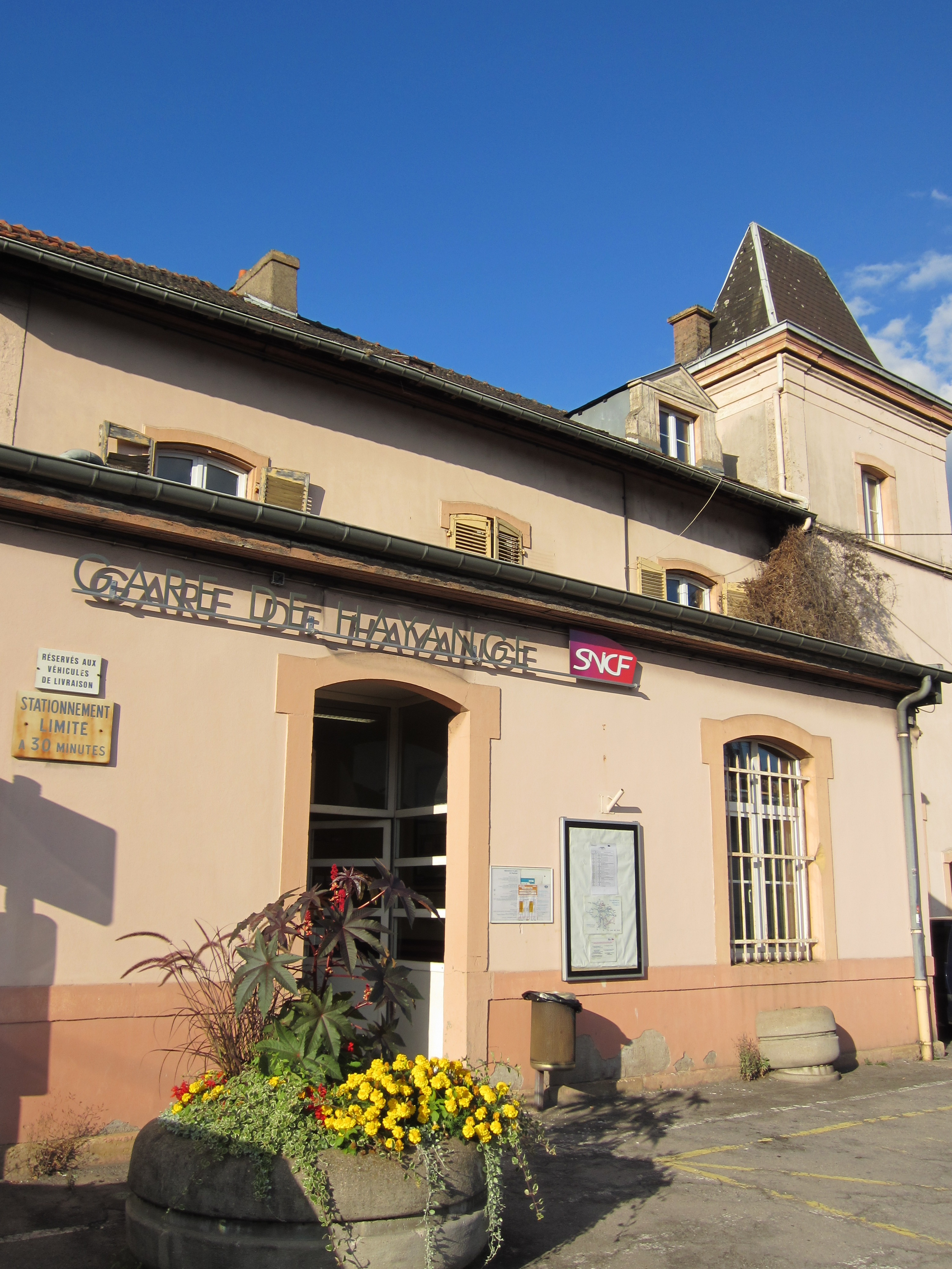 Description gare Hayange Date31 August 2011Sourcemon appareil photoAuthorAimelaimePermission (Reusing this file) gare Hayange